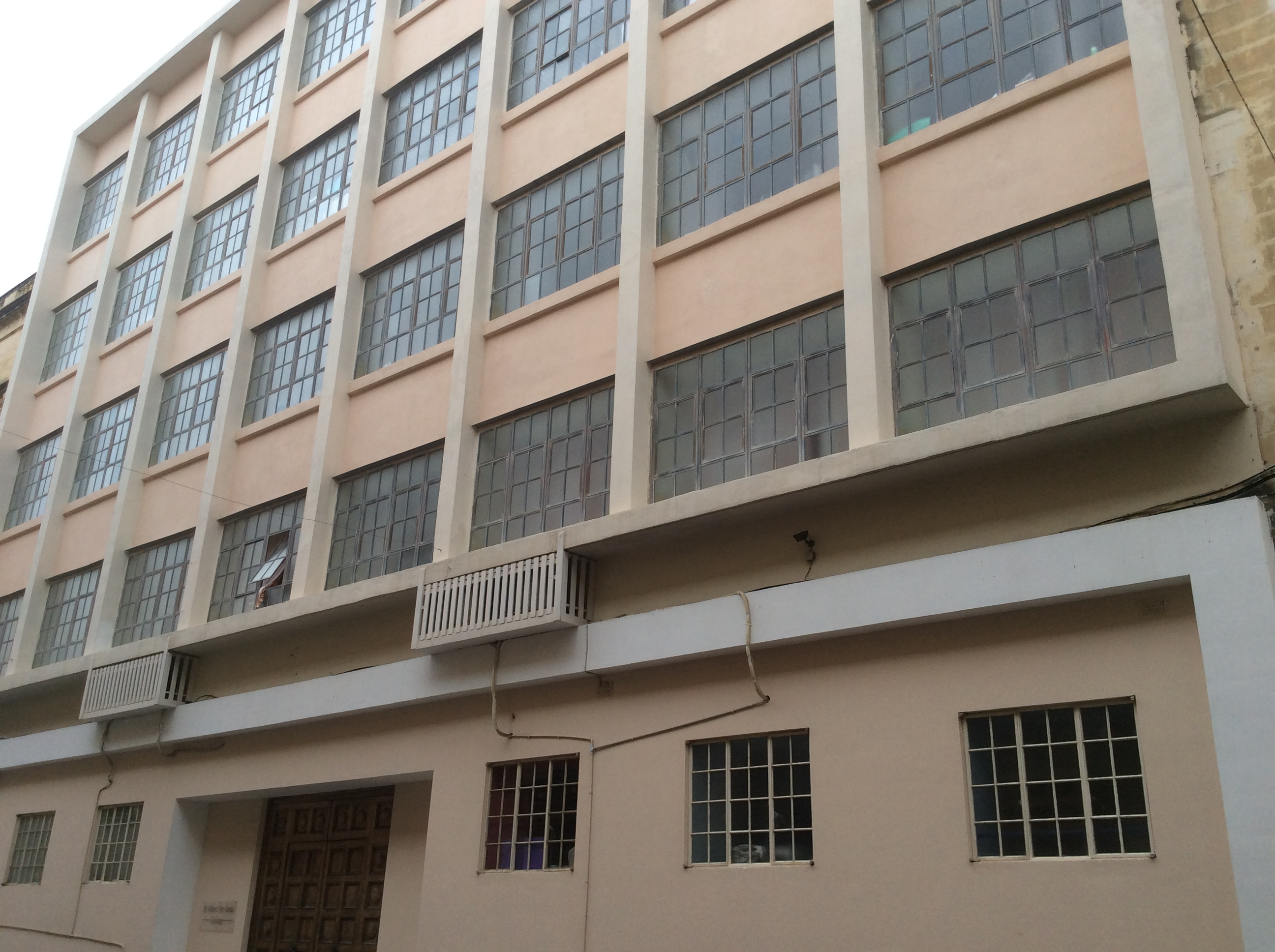 St Albert the Great, Valletta